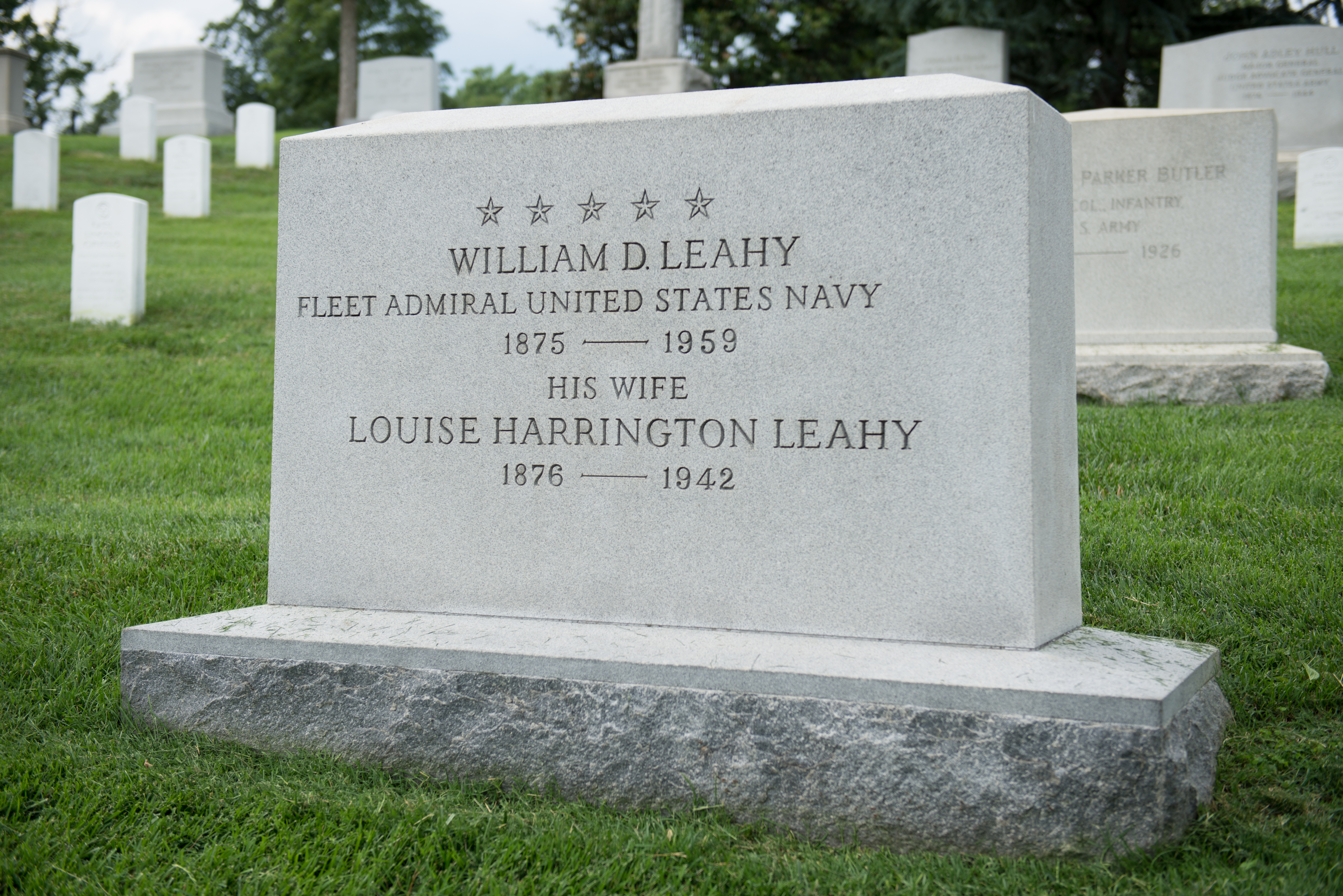 Fleet Admiral William Daniel Leahy, May 6, 1875 – July 20, 1959, was an American naval officer, building his reputation through administration and staff work. From 1942 until retiring in 1949 he was the highest-ranking member of the U.S. Military, taking orders only from the President. In effect, though not in title, he was the first Chairman of the Joint Chiefs of Staff; he also presided over the American delegation to the Combined Chiefs of Staff. In these multiple roles he was at the center of all major American military decisions in World War II. (U.S. Army photo by Rachel Larue/released)